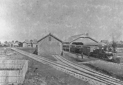 Sapporo Station of Horonai Railway